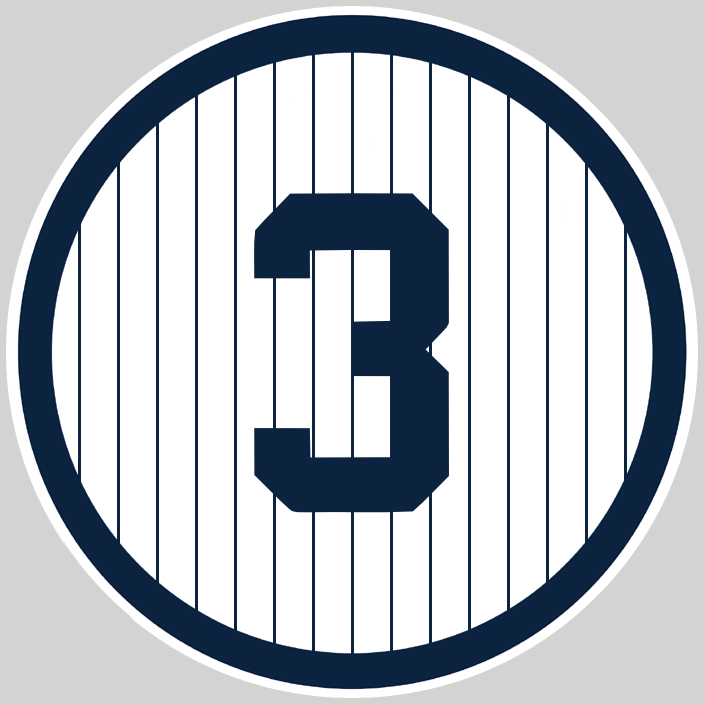 Image represents the current version of Babe Ruth's No. 3 seen in Monument Park in Yankee Stadium